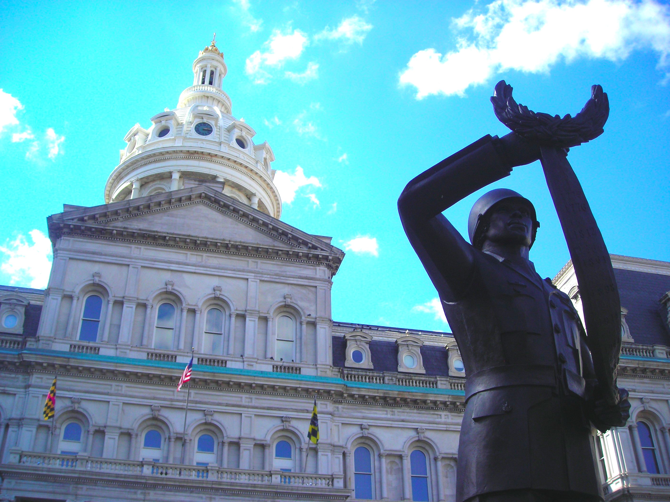 "Negro Soldier" statue in front of City Hall (where it was moved in 2007).